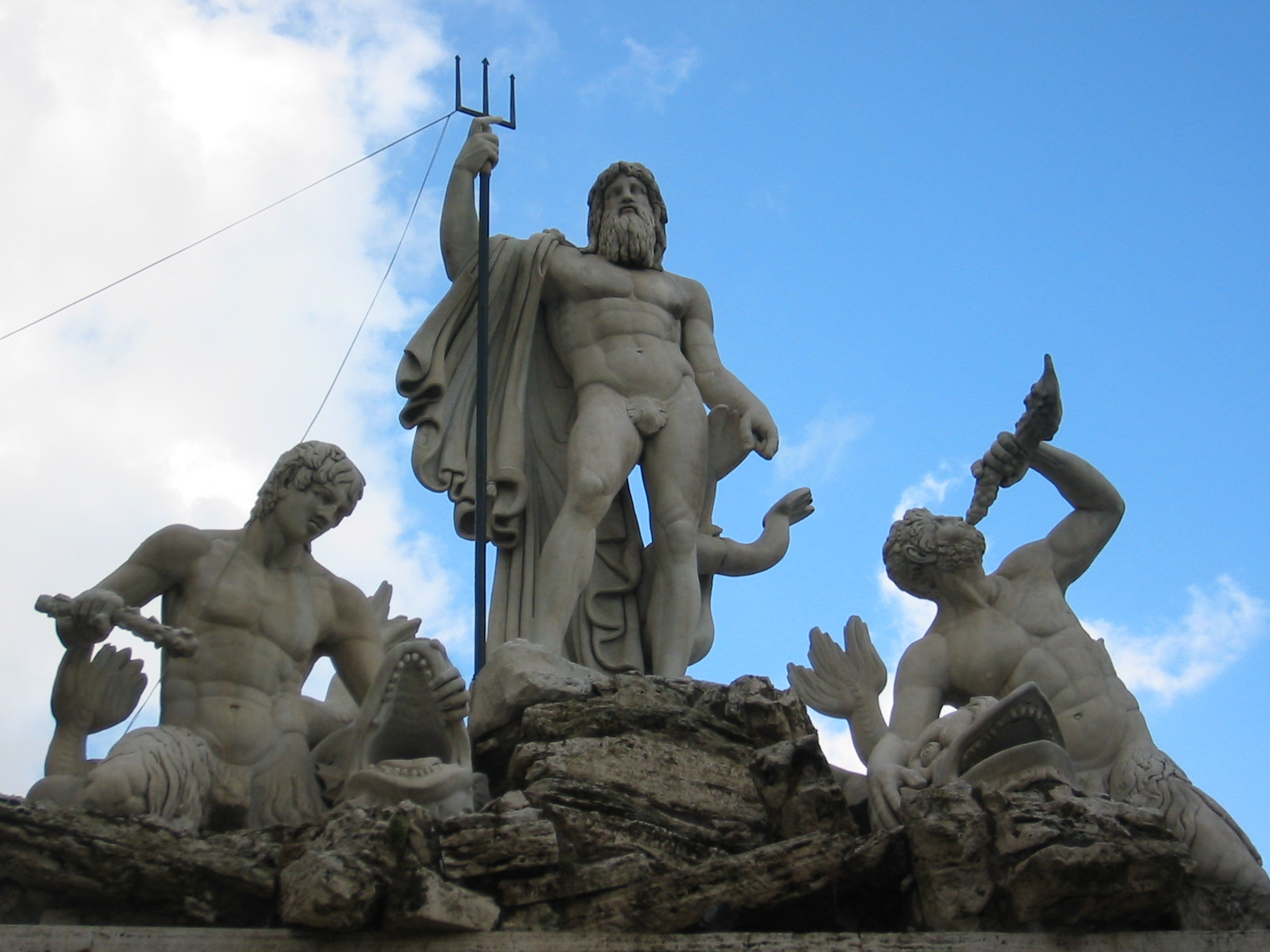 Poseidon (Neptune), Rome, Italy.